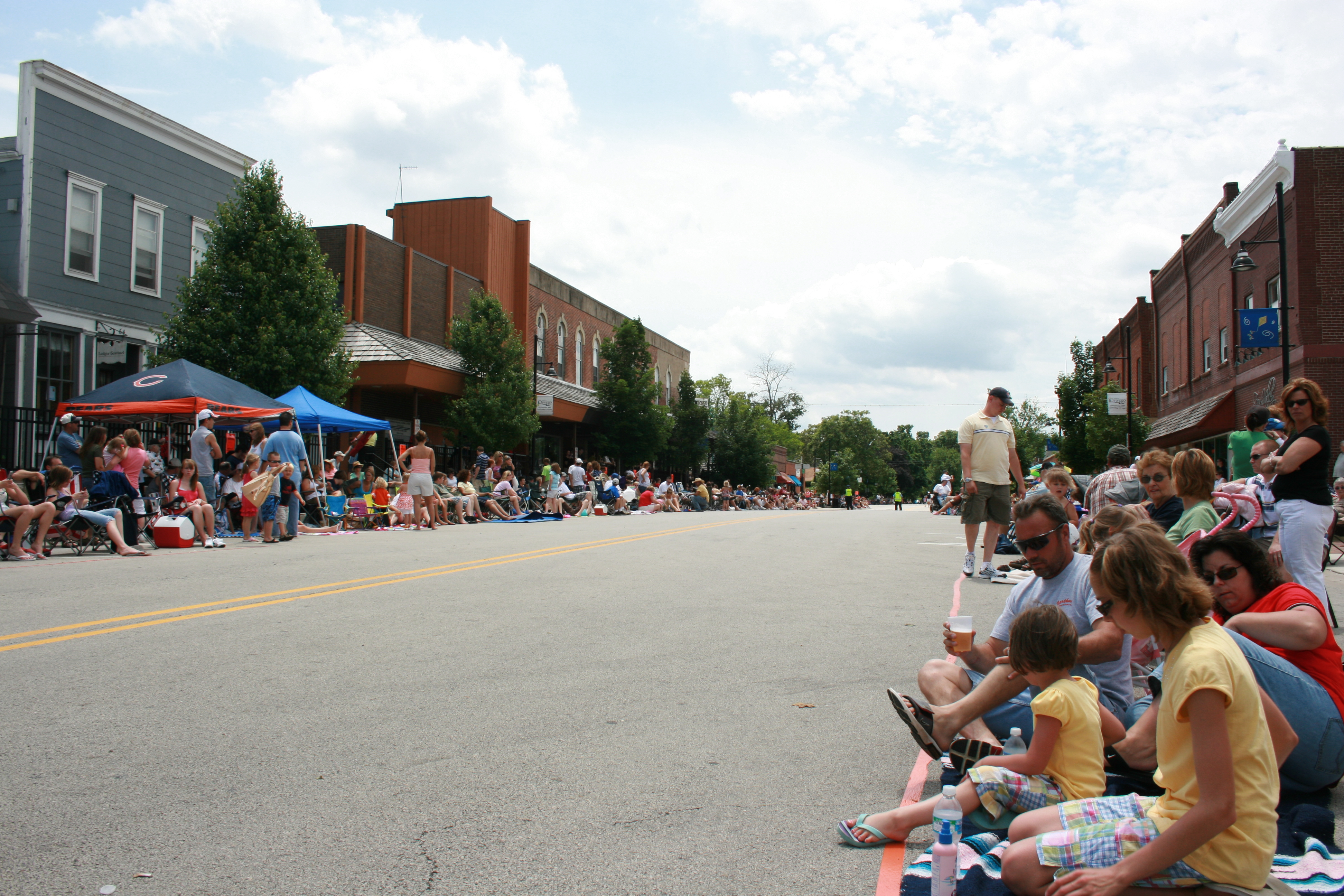 Oswego, Illinois - downtown during PrairieFest parade